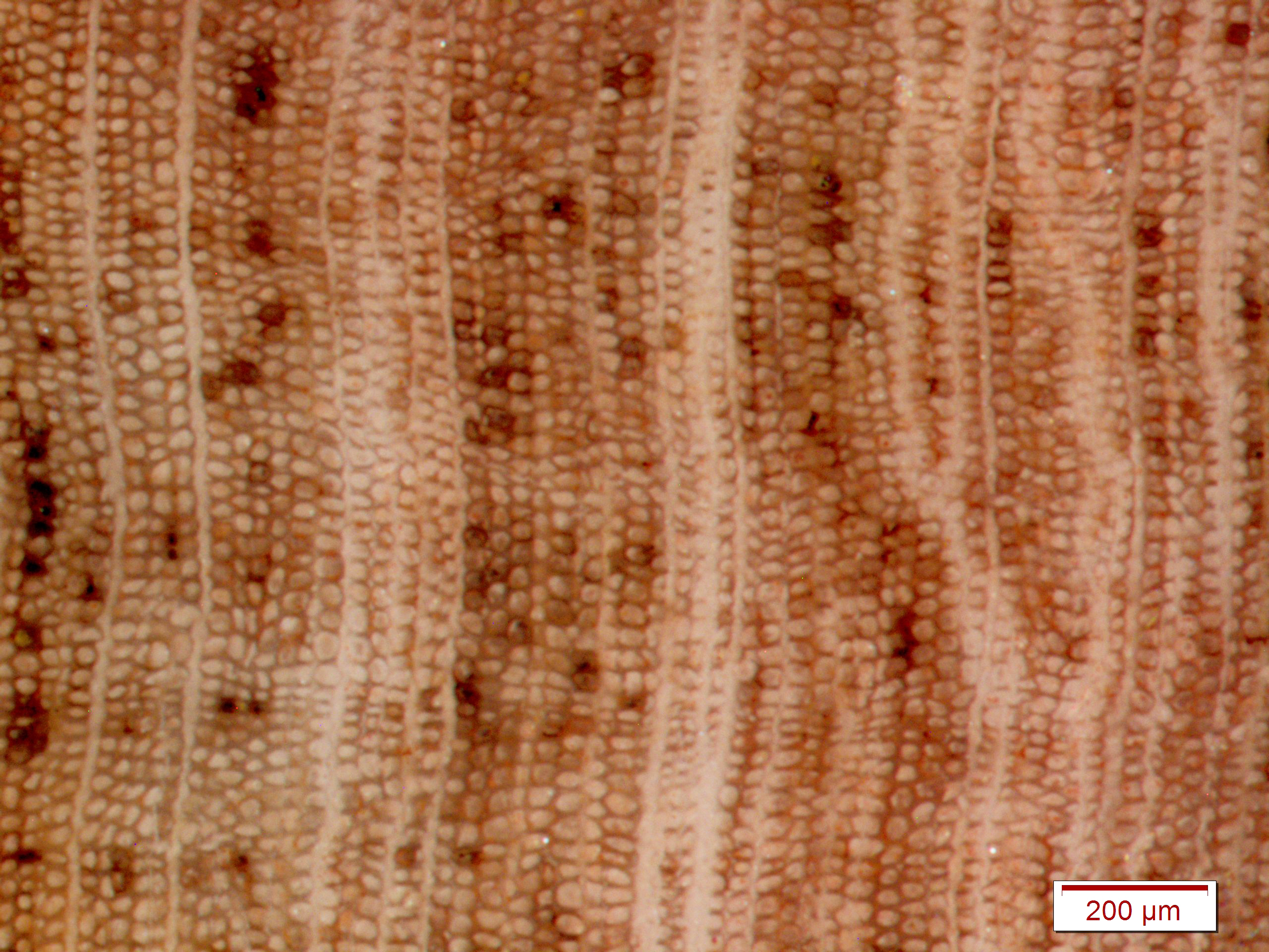 Polished petrified wood showing cells. Location unknown.